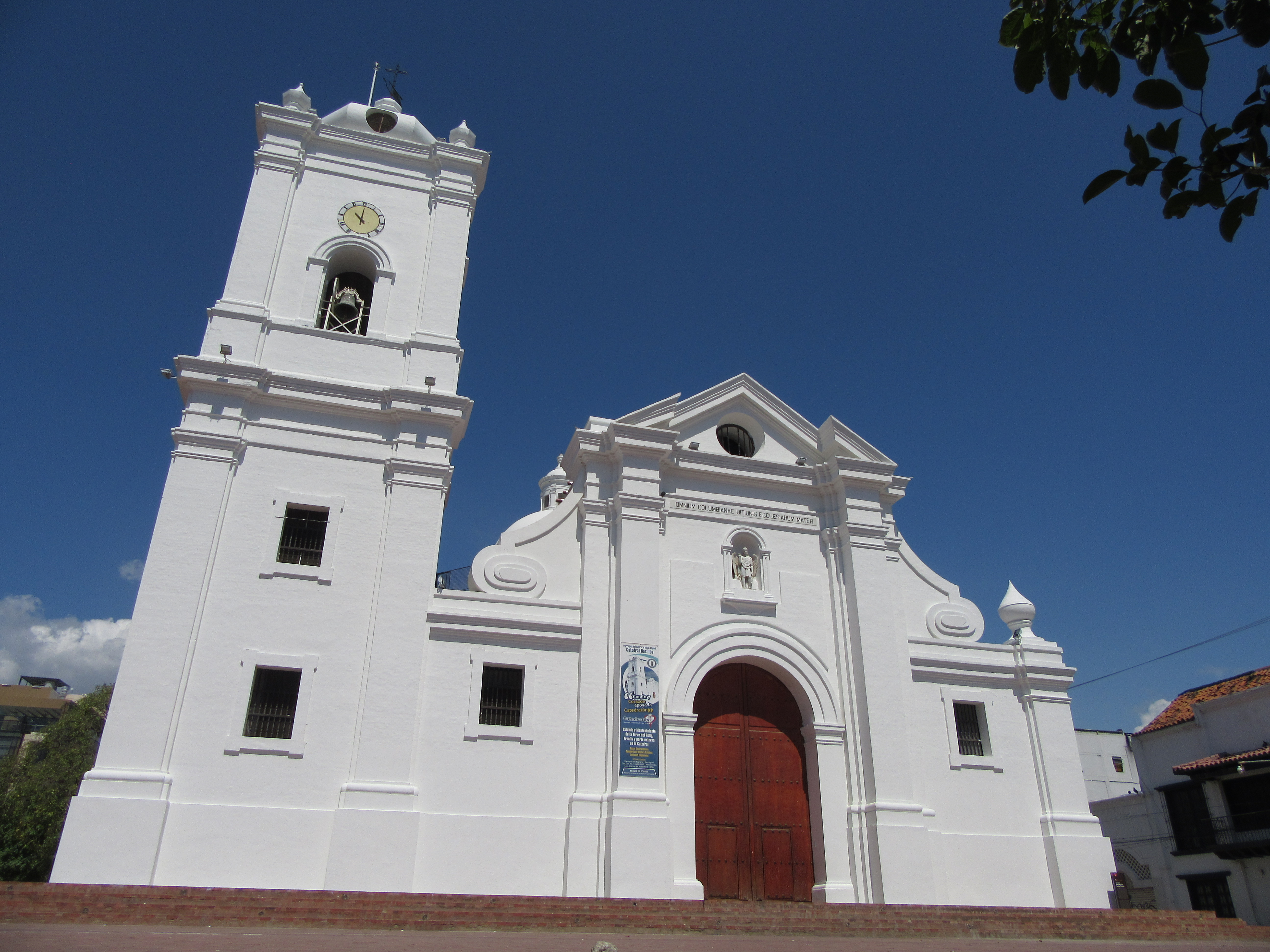 Santa Marta